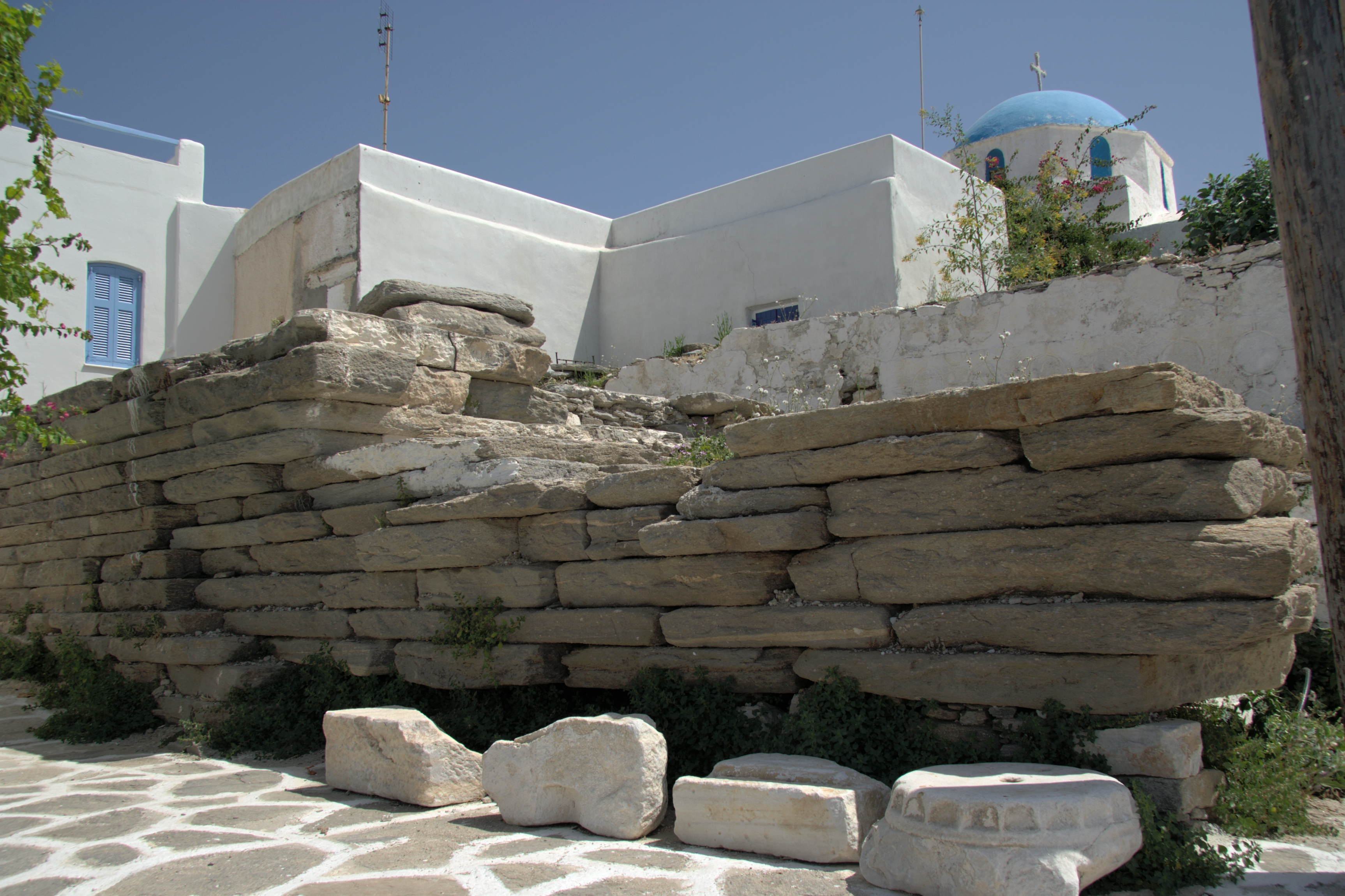 Remnants of the temple of Athena and church Agios Konstantinos. Parikia, Paros.